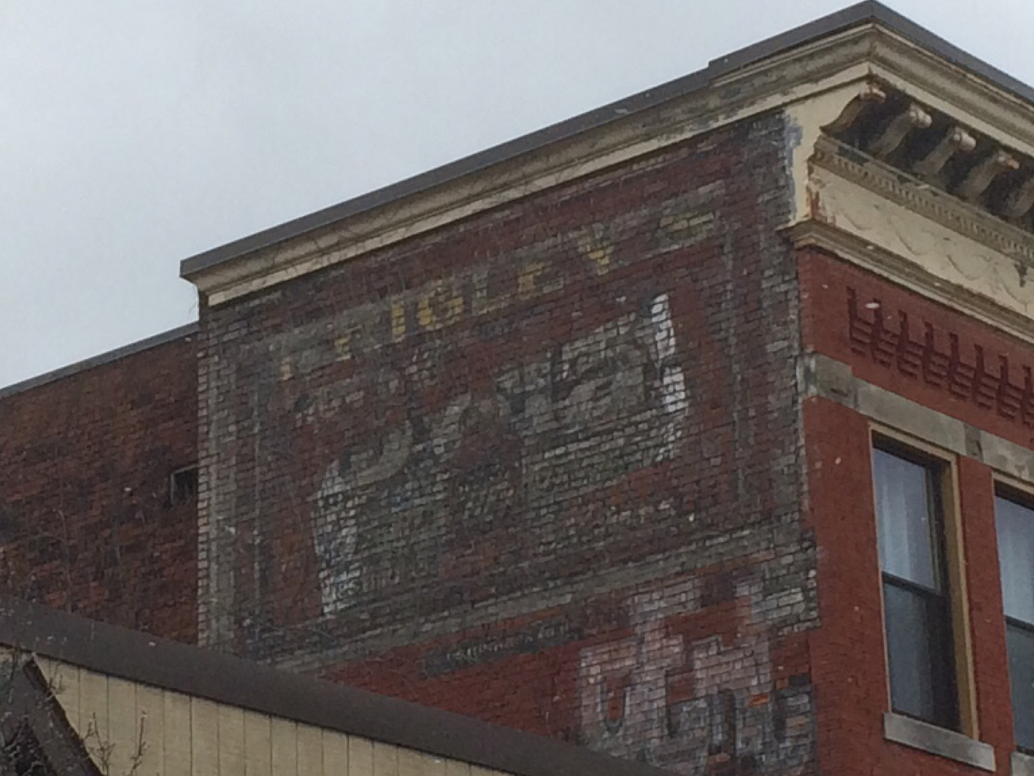 Old sign on side of building on South Pennsylvania Avenue, Greensburg, Pennsylvania, USA